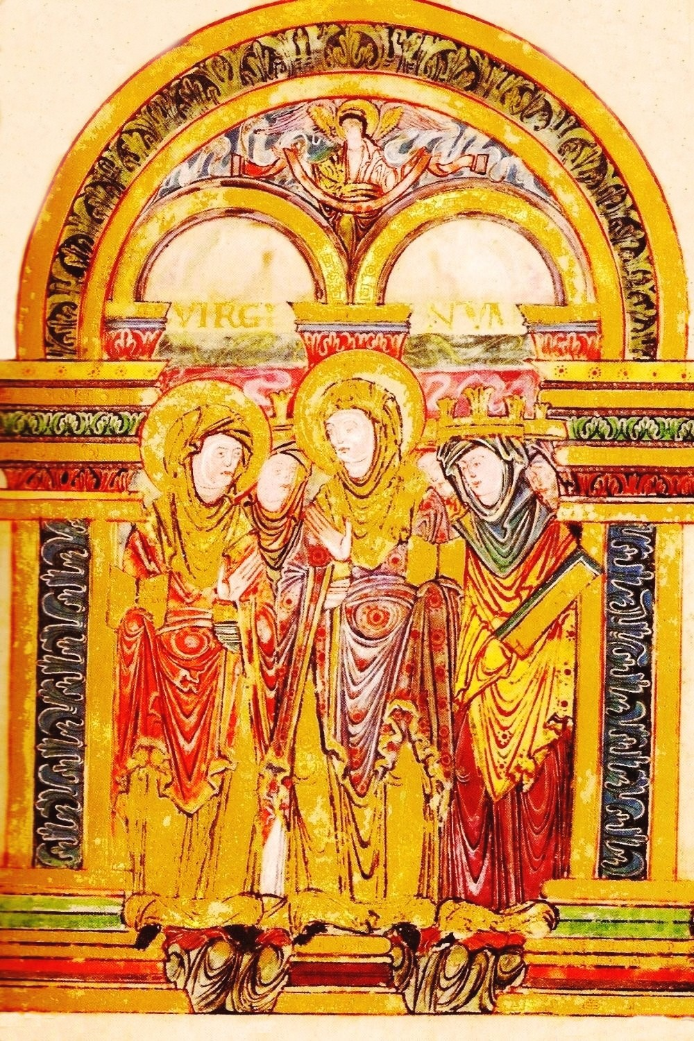 The Choir of Virgins from the Benedictional of St. Aethelwold. This is a faithful reproduction of a page from the original illuminated manuscript. Since the benedictional dates from 963-984 A.D., it's copyright is definitely expired.